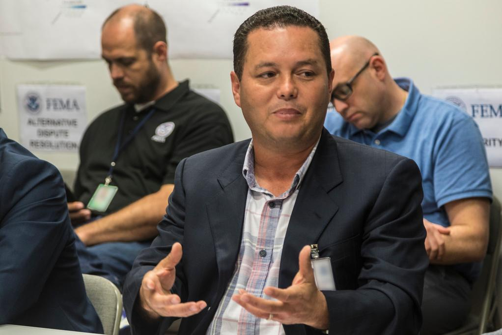 Guaynabo, Puerto Rico, March 20, 2018 – Angel Perez Otero, Mayor of Guaynabo, Puerto Rico, speaks during a leadership briefing for Thomas Bossert, Assistant to the President for Homeland Security and Counterterrorism, at the FEMA JFO in Guaynabo during a recent visit by Bossert and White House aides to Puerto Rico to review FEMA’s recovery efforts and response to Hurricane Maria, which struck Puerto Rico on September 20, 2017. FEMA partners with federal agencies, the state, local communities, counties, municipalities, volunteer organizations active in disaster (VOAD) and tribal entities to provide assistance to disaster survivors and local communities. Photo by Christopher Mardorf / FEMA.